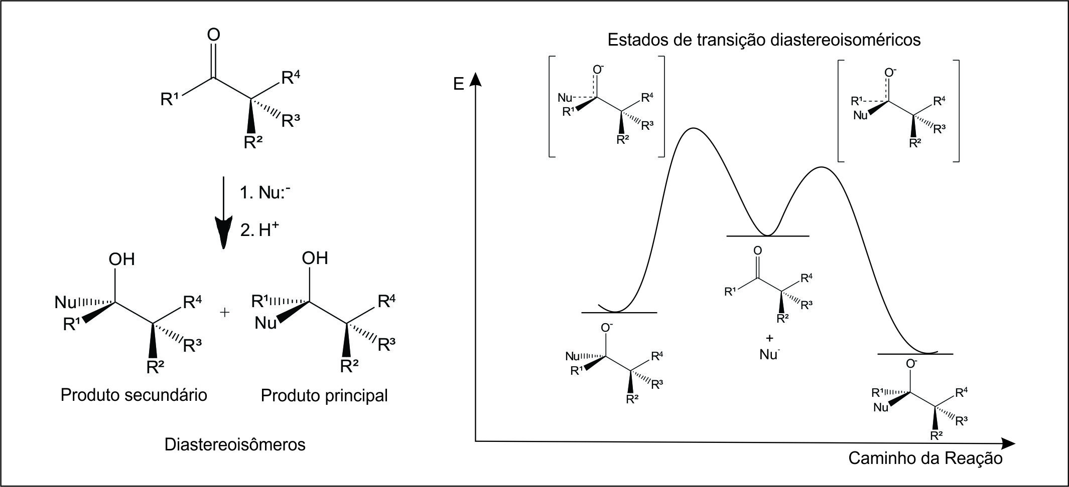 Esquema adaptado de COSTA et al, 2003, p.66.